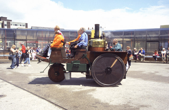 Bus Station, Merthyr Tydfil Trevithick bicentenary with the Grenville steam carriage up for the day from Bristol Industrial Museum. This vehicle is now at Beaulieu.